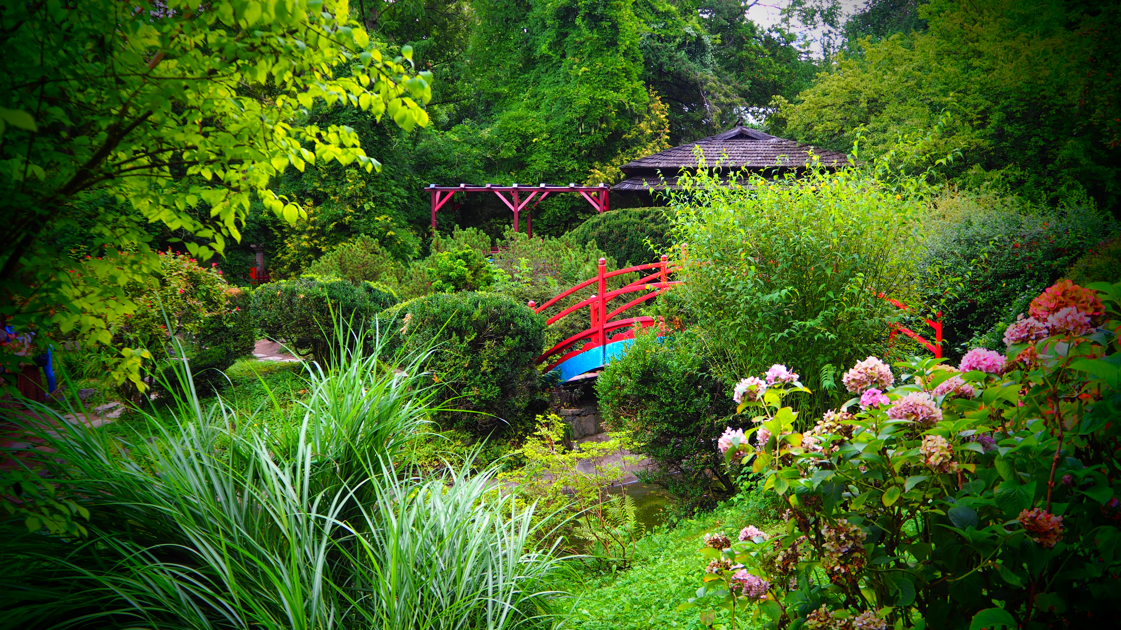 Cluj-Napoca, Romania ◘◘◘◘◘◘◘◘◘◘◘◘◘◘◘◘◘◘◘ You like Bucharest more? Try my site about the capital of Romania here! I know you'll like it!